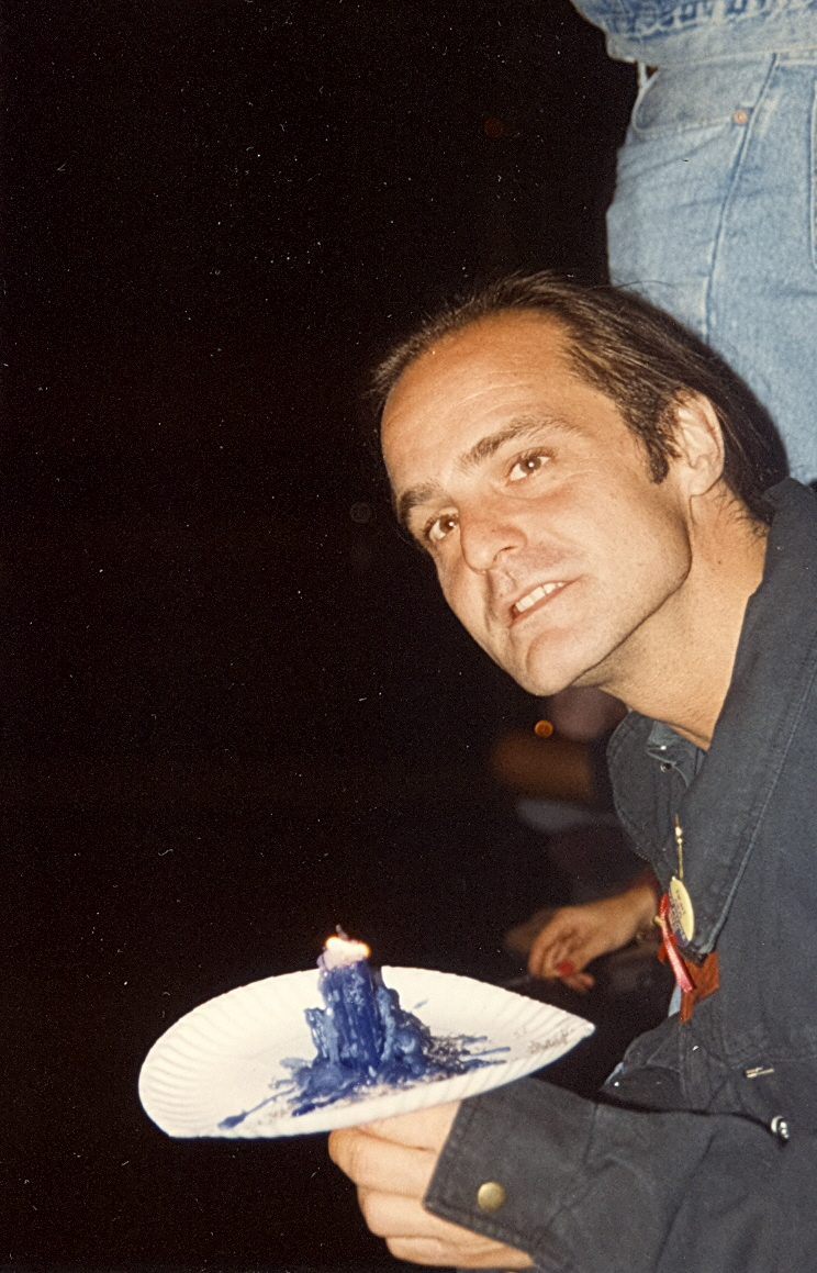 Jeffrey Montgomery attends The NAMES Project's AIDS Quilt Memorial Display Candlelight Vigil at the Reflecting Pool / Lincoln Memorial, National Mall on Saturday Night, 10 October 1992. . Elvert Xavier Barnes Protest Photography